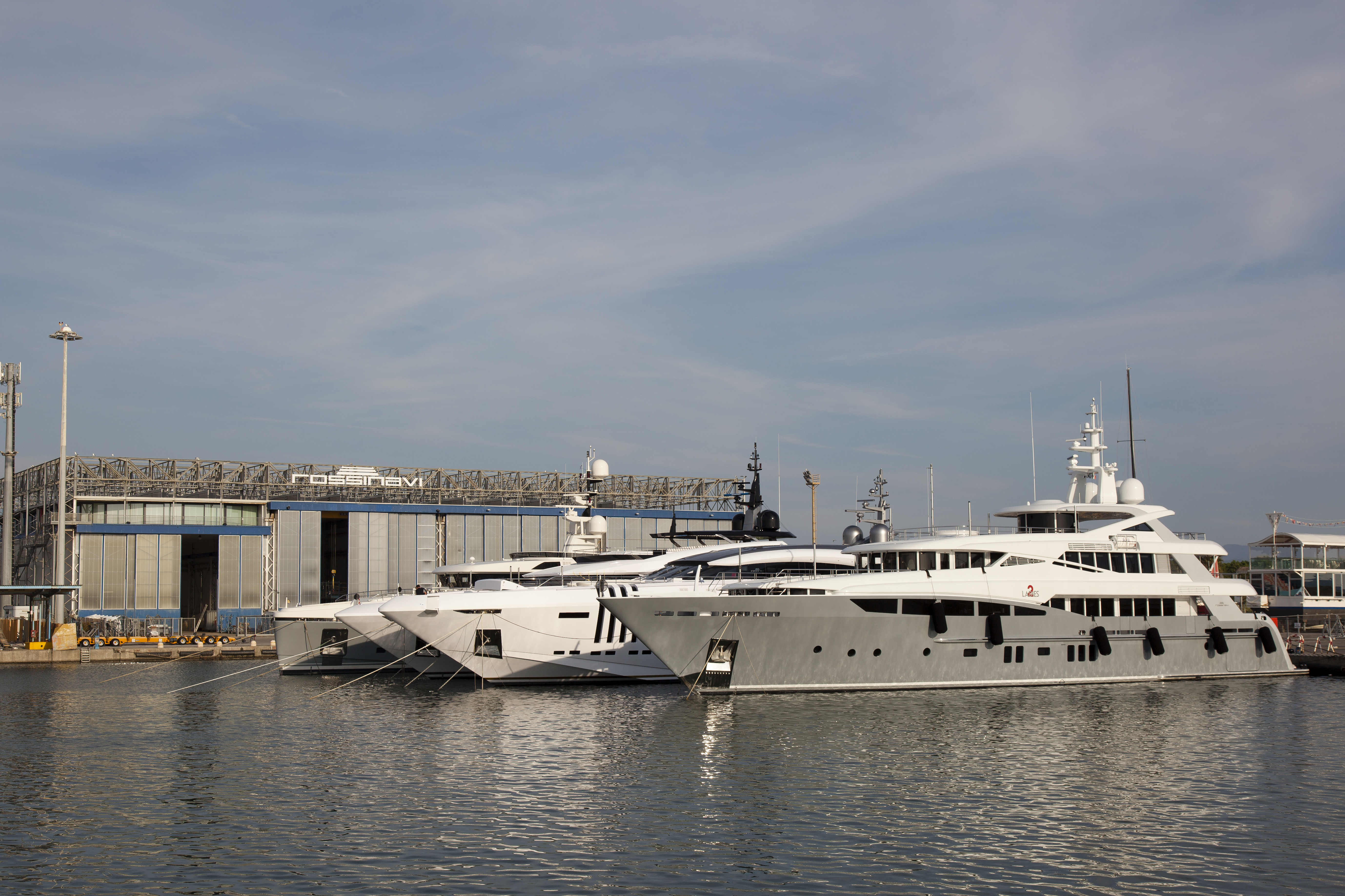 Some Rossinavi Yachts in front of the shipyard.